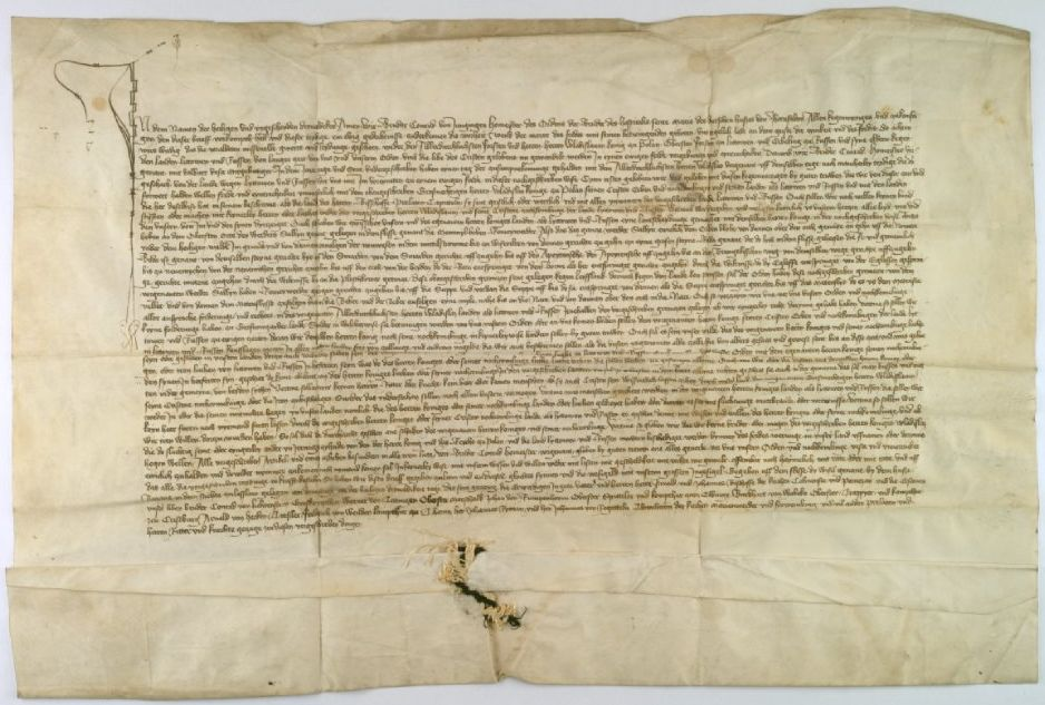 Peace of Raciąż between Kingdom of Poland, Grand Duchy of Lithuania, and Teutonic Knights